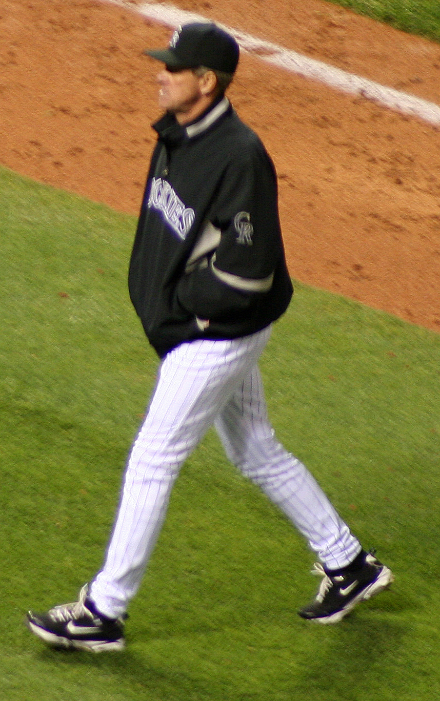 Jim Tracy, the manager of the Colorado Rockies baseball team.